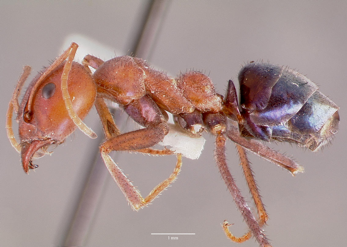 Profile view of ant Iridomyrmex purpureus specimen casent0006108.